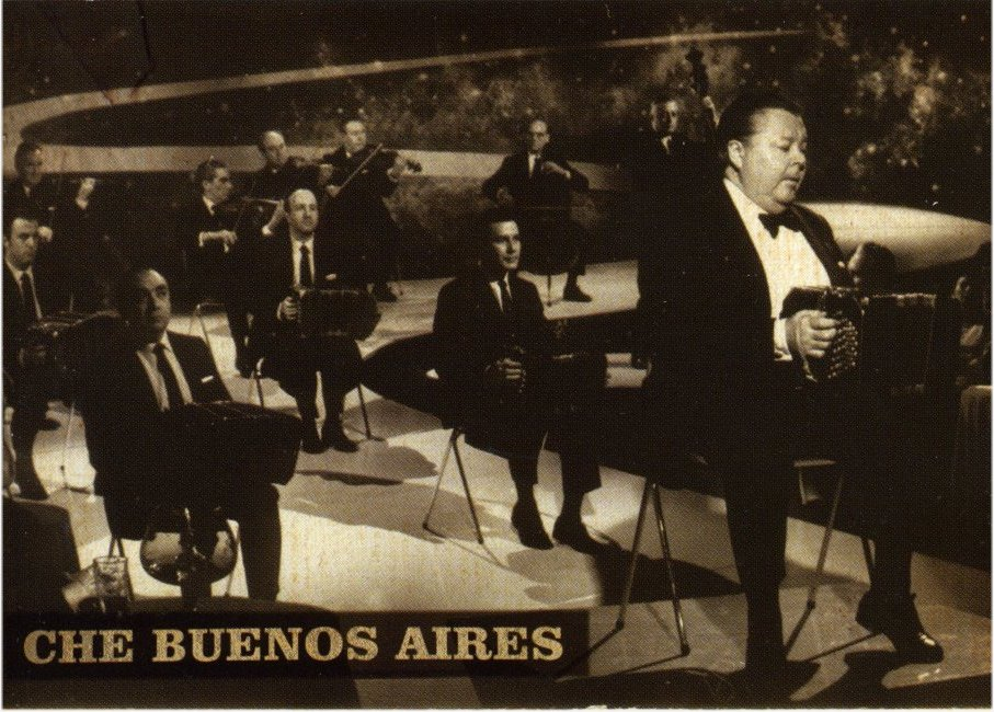 Anibal TRoilo (Pichuco) and his Orquestra. Cover of Album "Che Buenos Aires" (1969)